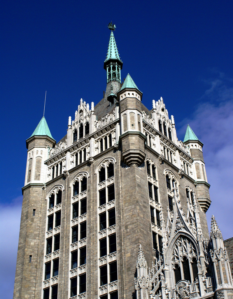 Main Tower of State University of New York System Offices in Albany, NY